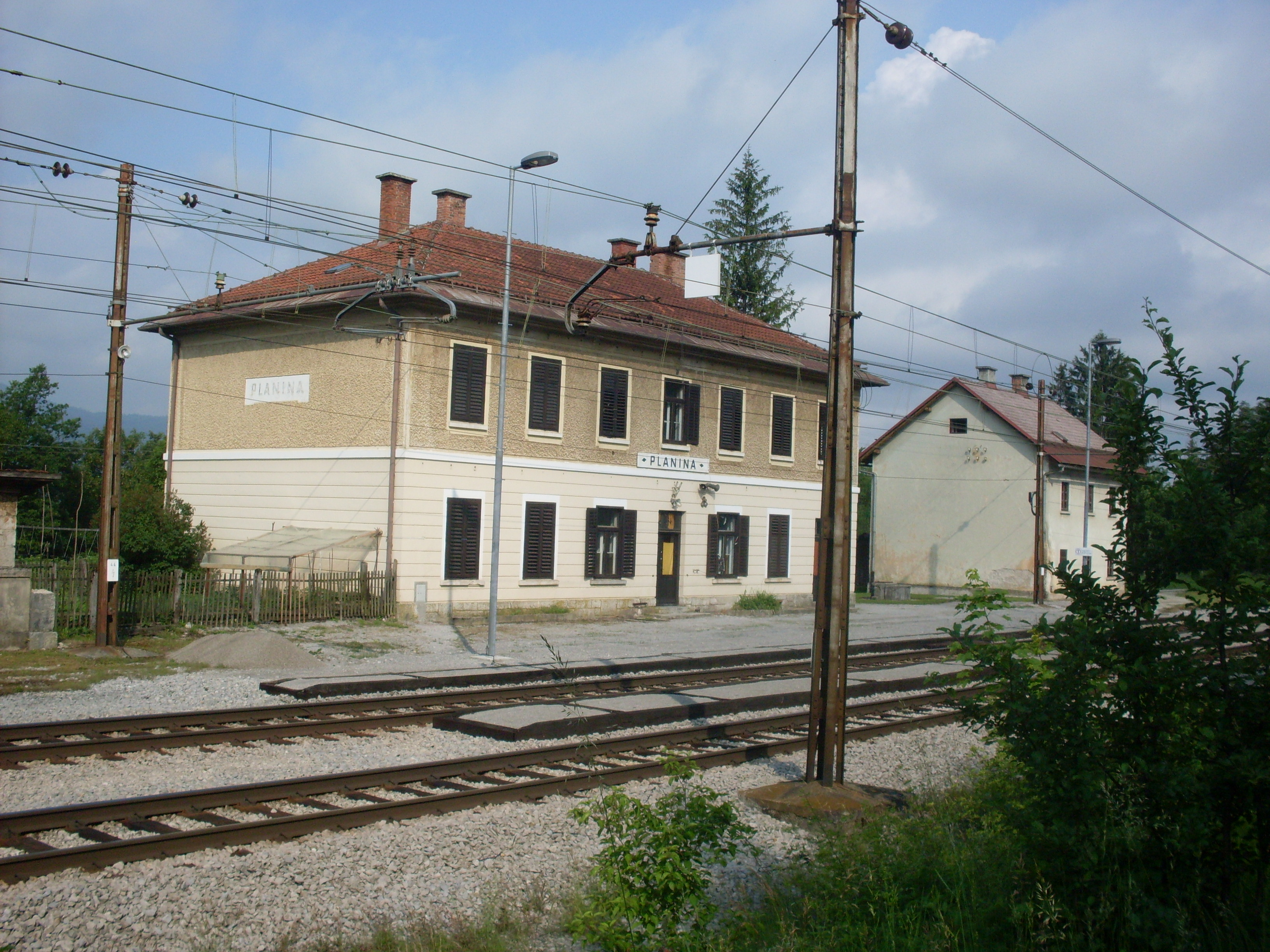 Rail halt Planina, actually located in Ravnik, a part of LazeSlovenščina: Železniško postajališče Planina, ki se pravzaprav nahaja v Ravniku pri Lazah